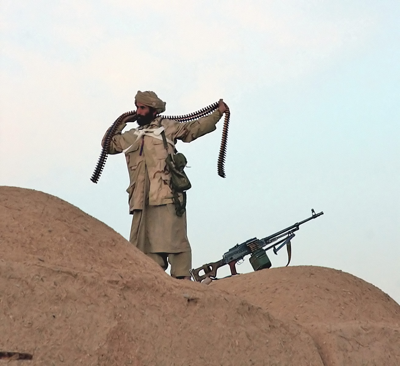 Original caption: An Anti-Taliban Forces (ATF) fighter wraps a bandolier of ammunition for his 7.62mm PK Kalashnikov machine gun around his body as ATF personnel help secure a compound in the Helmand Province of Afghanistan, during Operation ENDURING FREEDOM.